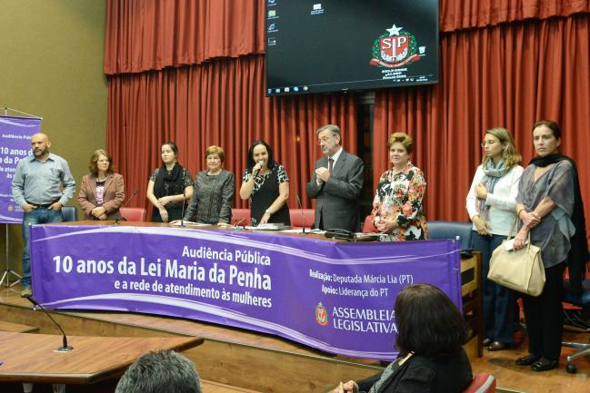 Marcia Lia during public hearing of 10 years of the Law "Maria da Penha"